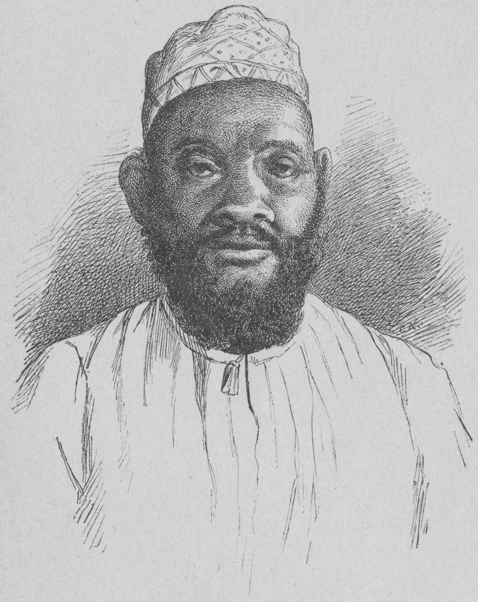 Tippu Tip, from the book "Stanleys expedition till Emin Paschas undsättning" by Alphonse-Jules Wauters Translator: Oscar Heinrich Dumrath (1890)